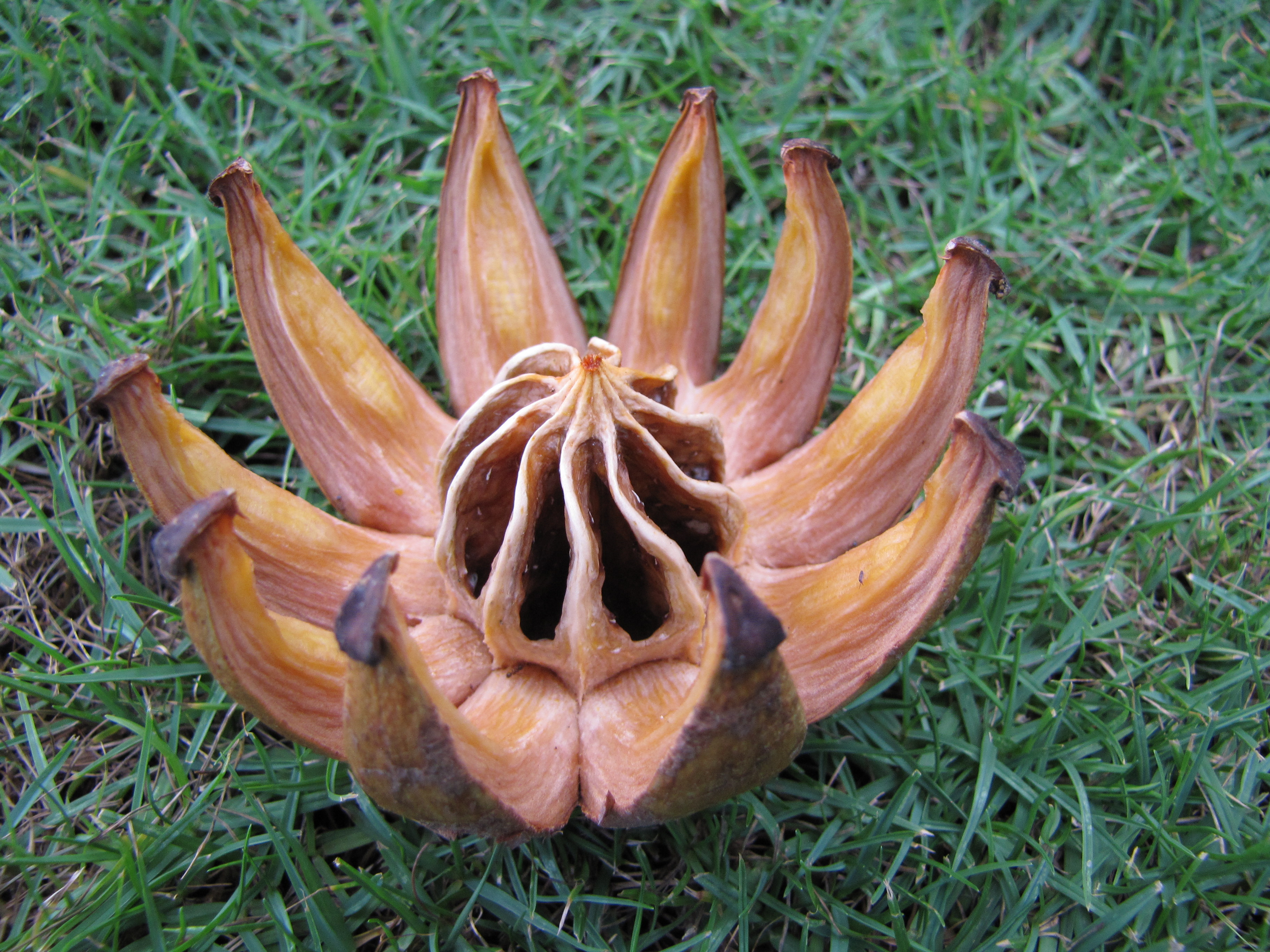 Clusia rosea (Autograph tree) Spent seed capsule at Pali o Waipio, Maui, Hawaii. November 08, 2012 #121108-0775 Image Use Policy Also known as Clusia major.